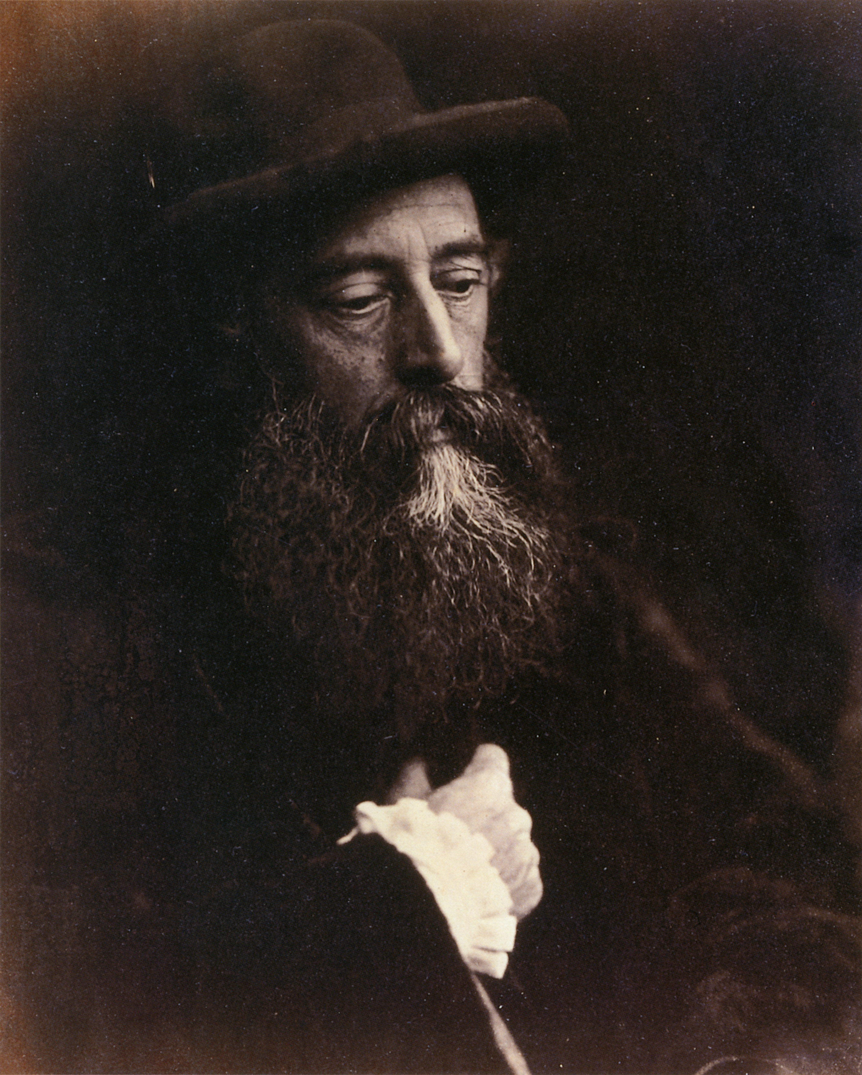 Detail of "G.F. Watts with hat", same photo depicted in File:G.F. Watts with hat, by Julia Margaret Cameron.jpg. Subject is George Frederic Watts. National Museum of Photography, Film & Television, Bradford.